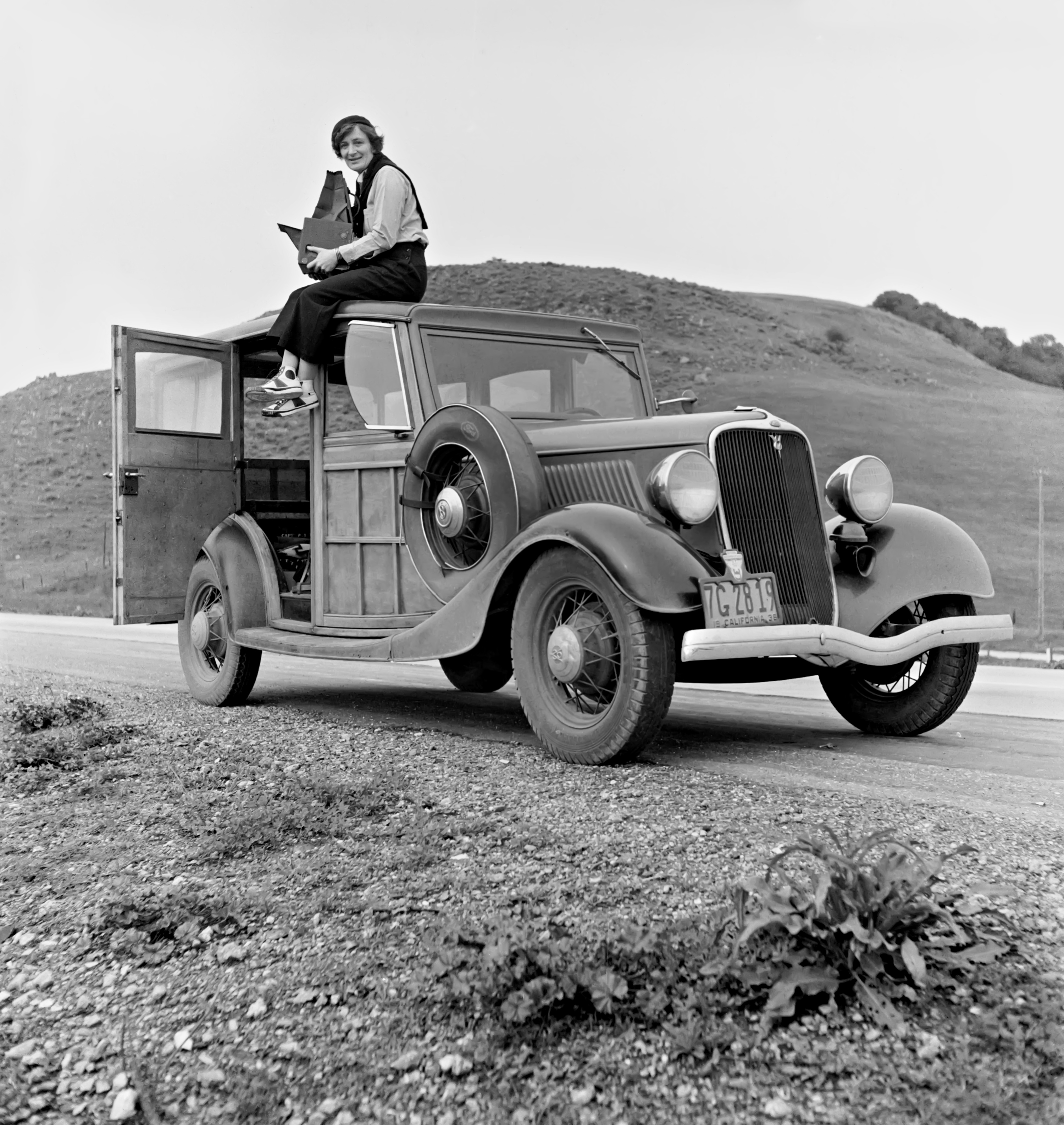 Dorothea Lange atop automobile in California. The car is a 1933 Ford Model C, 4 door Wagon. The camera is a Graflex 5x7 Series D. Lange was a New Deal Resettlement Administration and FSA-OWI photographer.